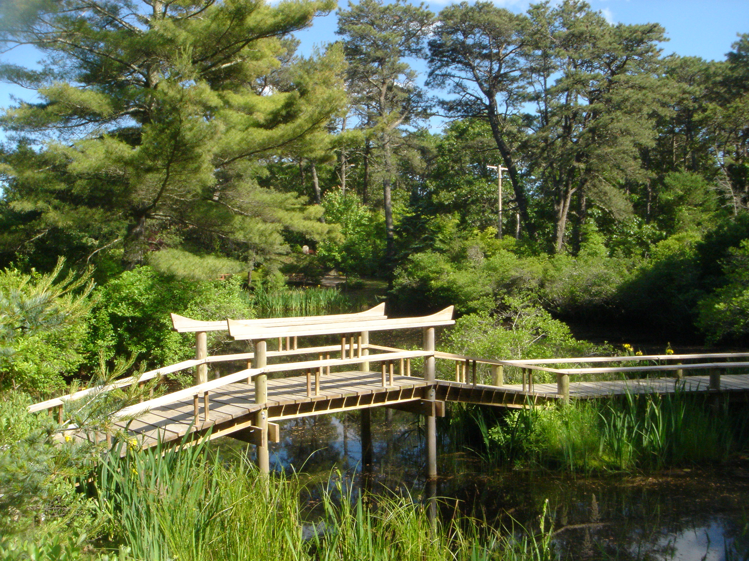 Mytoi Gardens, Chappaquiddick Island